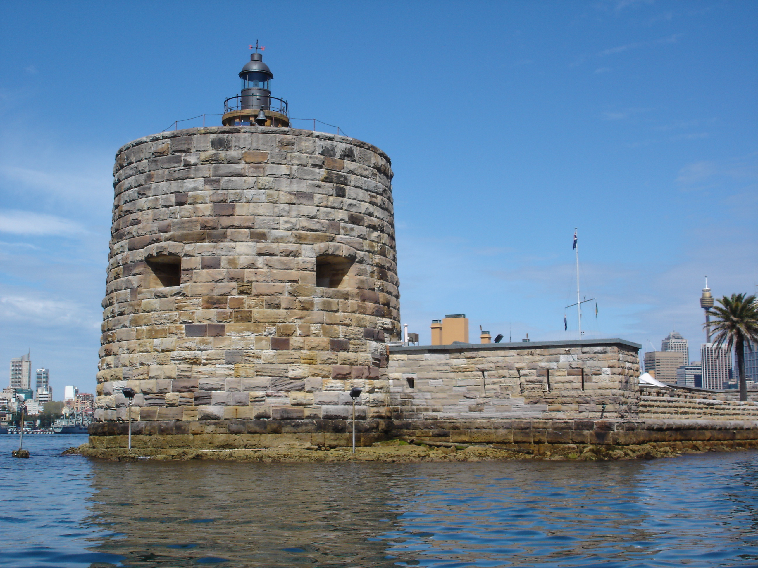 Fort Denison, Sydney Harbour, New South Wales. Picture taken 6/9/06 by user Amitch.